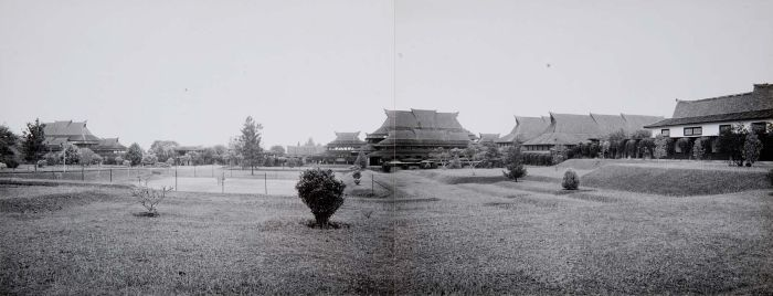 Institute of Technology, Bandung. From left to right: Barakgebouw B (1920 - Laboratory for materials science and building materials research) - tennis courts (1923) - Barakgebouw A (1921 - main building and auditorium) - Building for drawing and mockup room and lecture hall (1923) - Bosscha-Laboratory of Physics (1922).